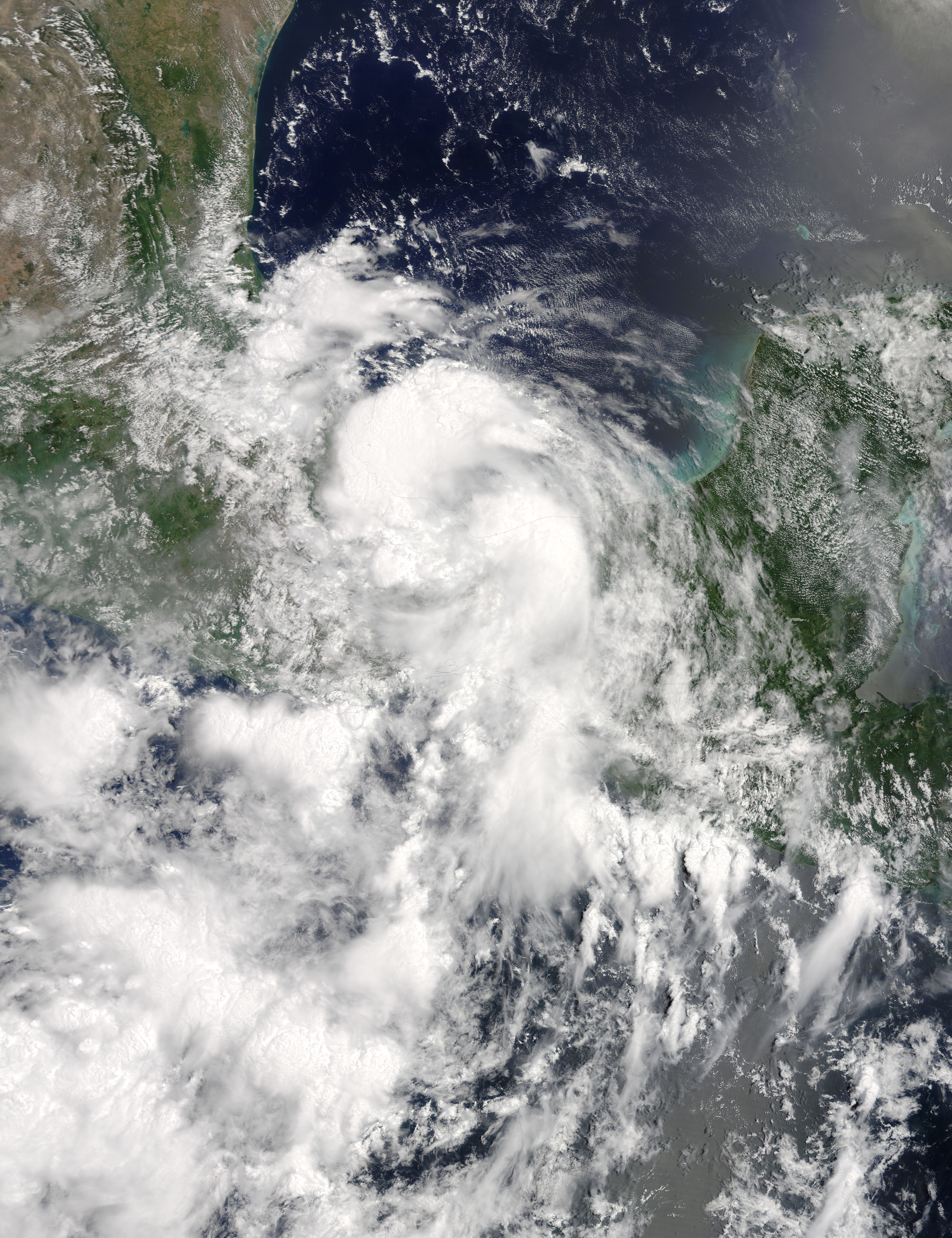 Tropical Storm Earl (05L) over Central America